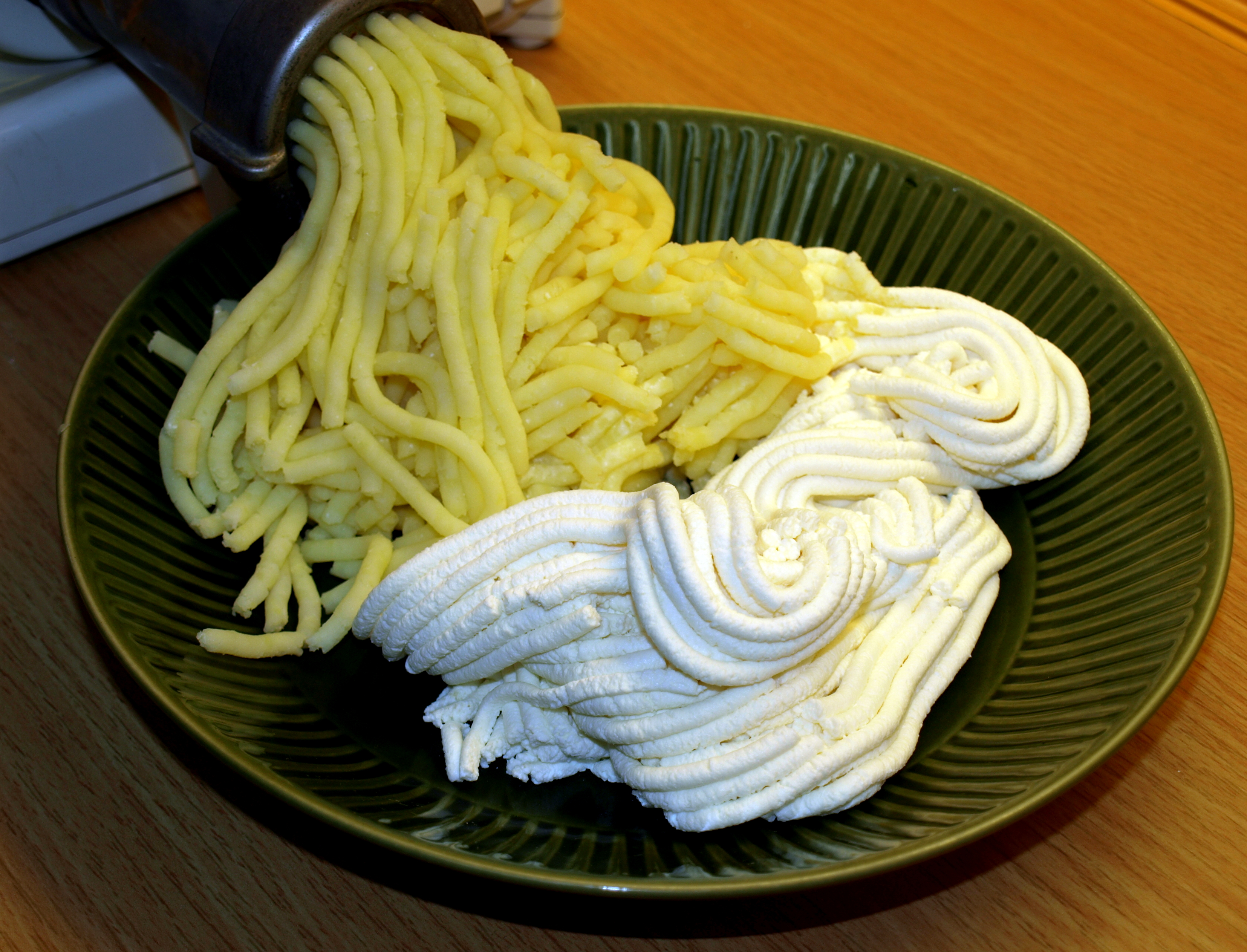 Preparation of potato-and-cheese pierogi filling: processing cheese and potatoes in a meat grinder.